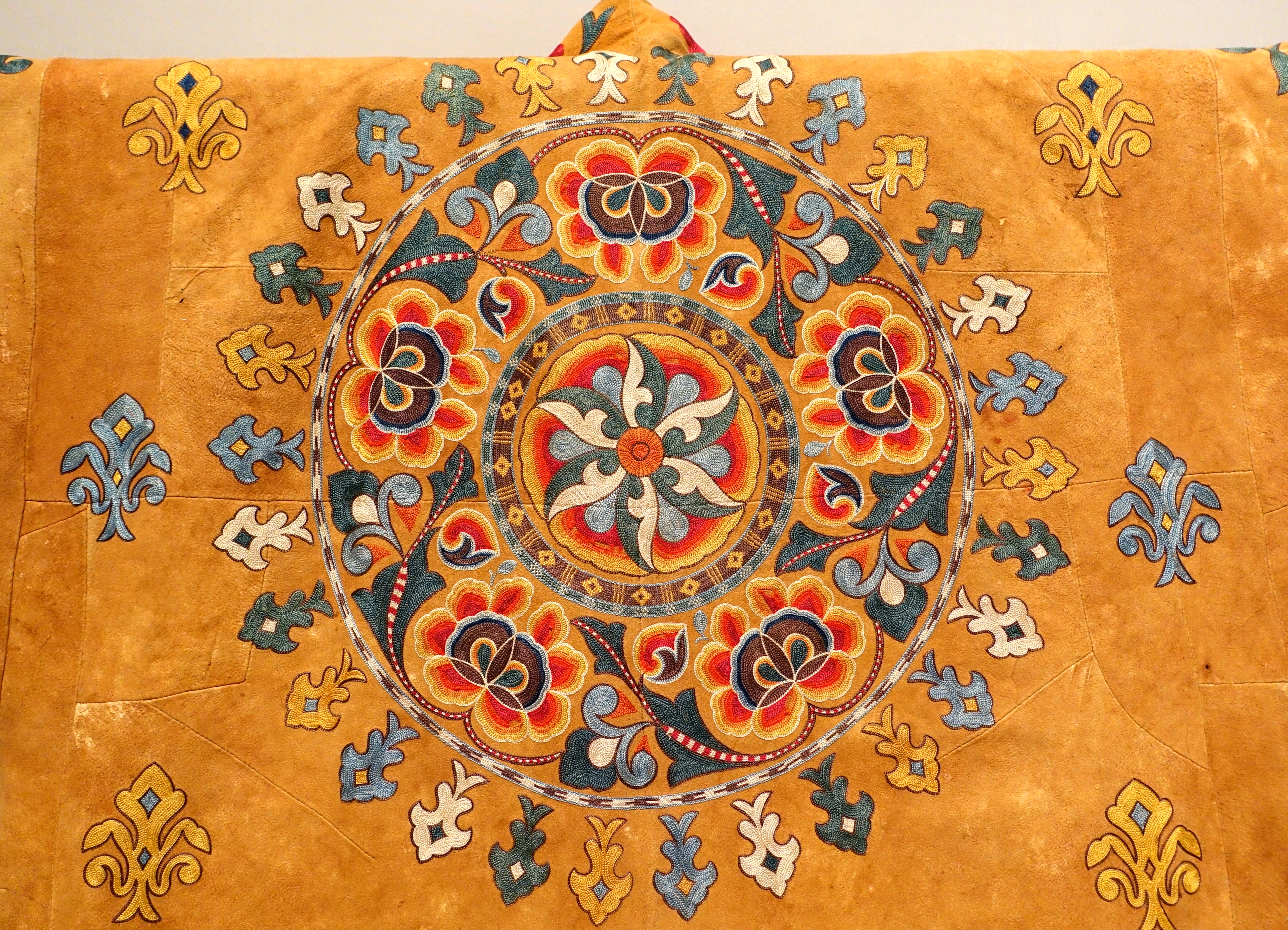 Exhibit in the Textile Museum, George Washington University, Washington, DC, USA. This work is old enough so that it is in the public domain.